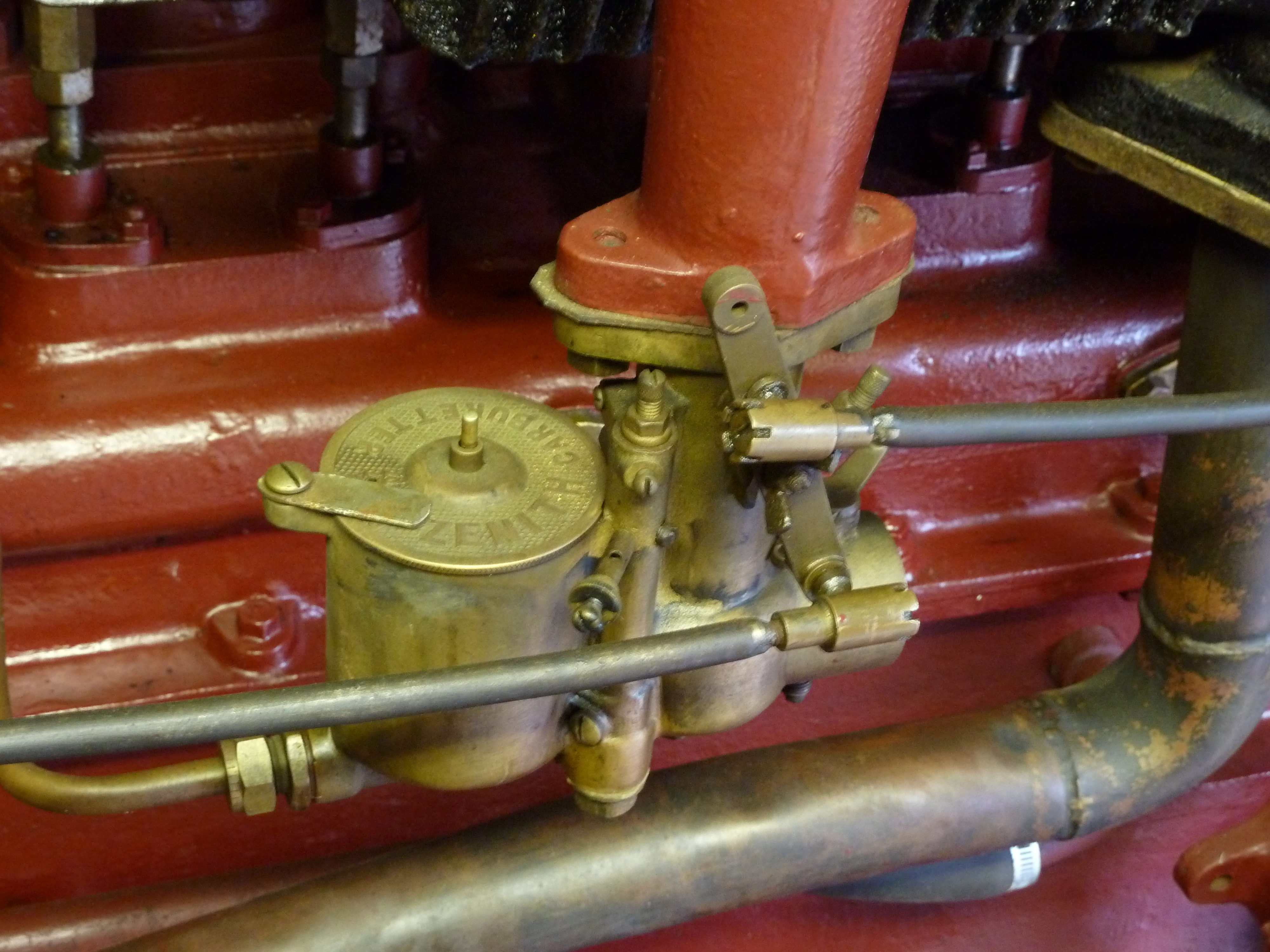 1925 Pelapone PD6, 17 litre 6 cylinder, petrol engine-generator set, ex a standby generator at Shrewsbury Hospital Now on display at the Internal Fire museum.